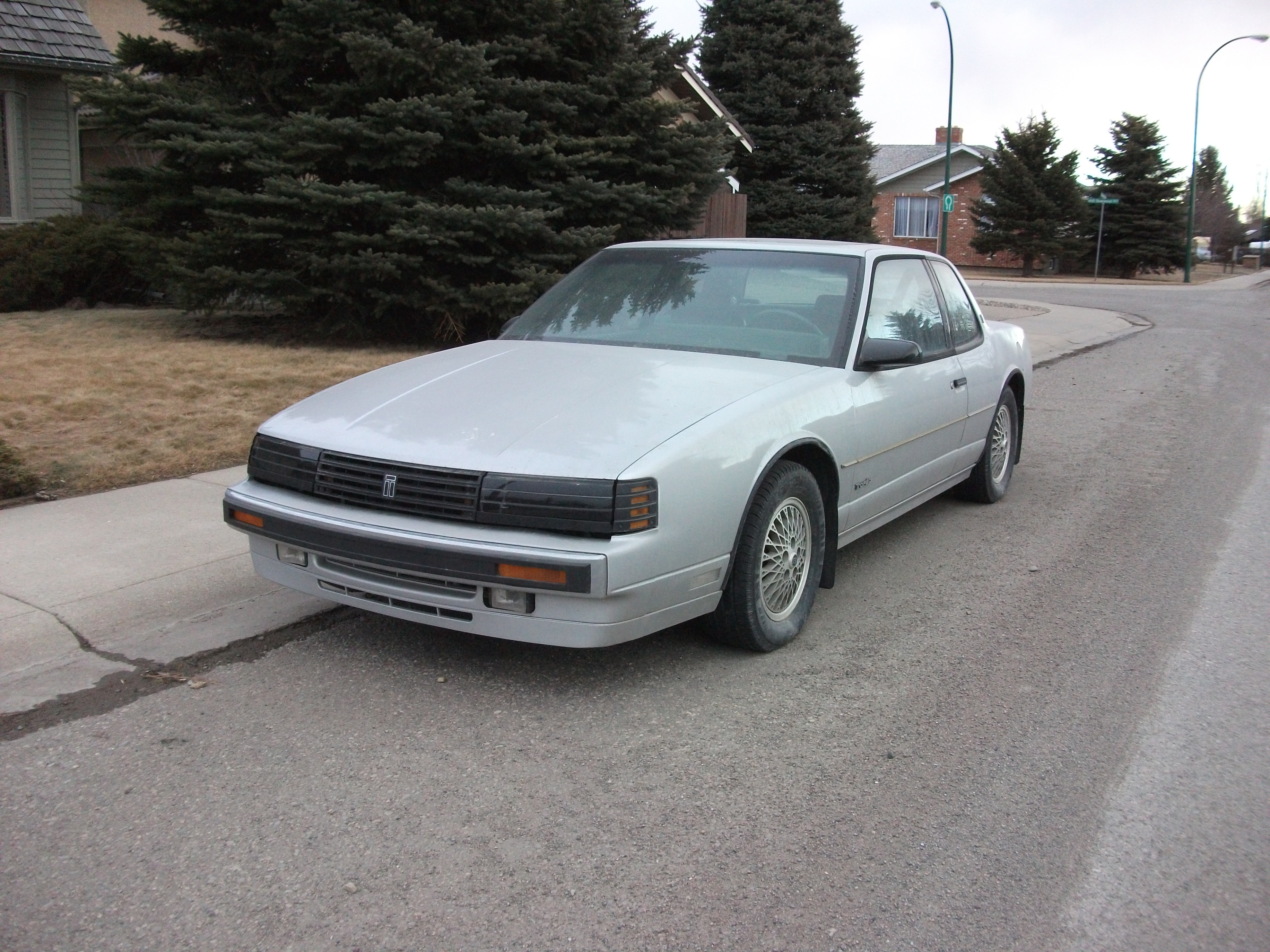 Early style Oldsmobile Troféo which is was the sportier model on the front wheel drive Toronado. It had the FE3 suspension package and 3.8L V6 engine.